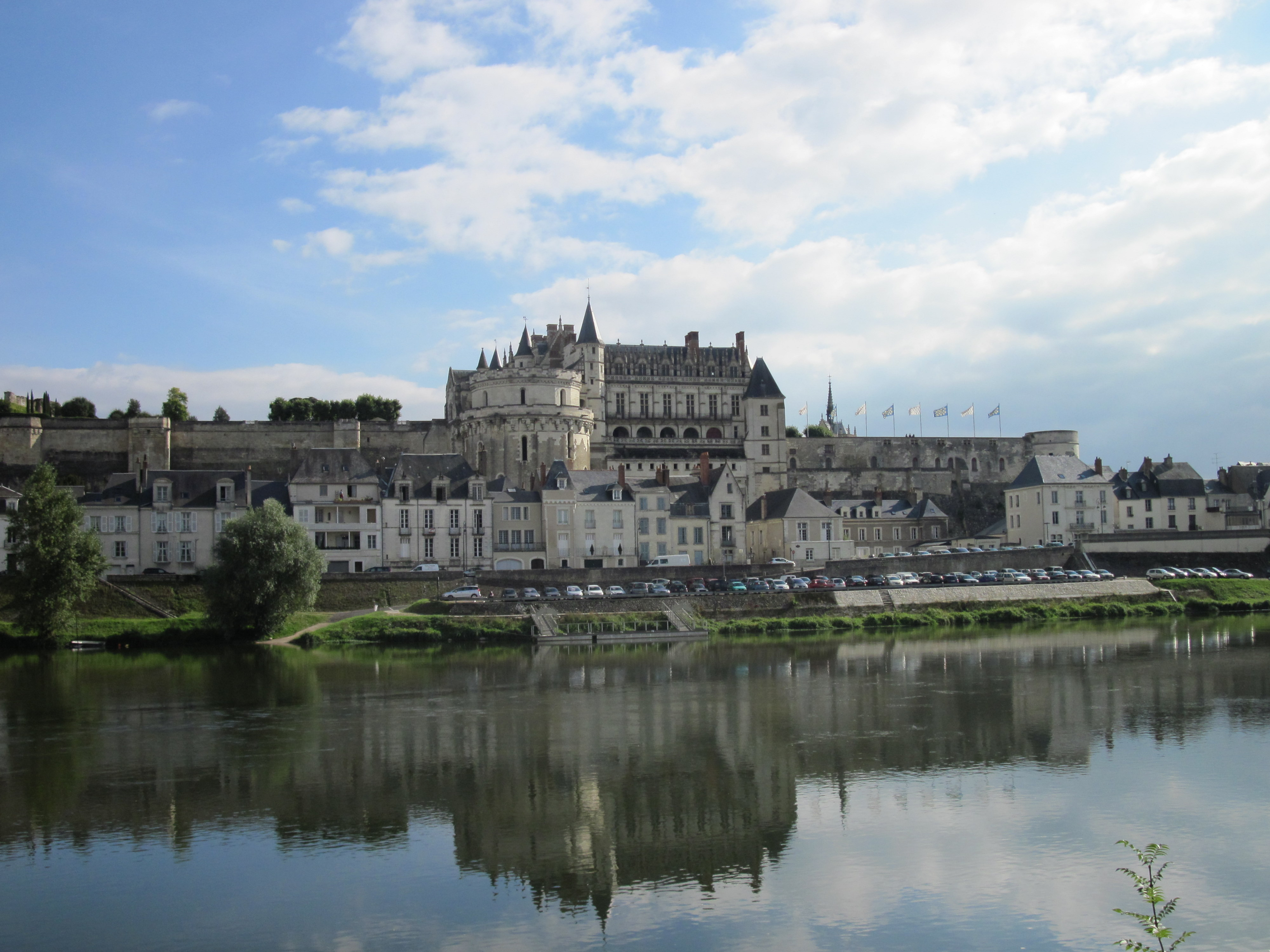 Amboise